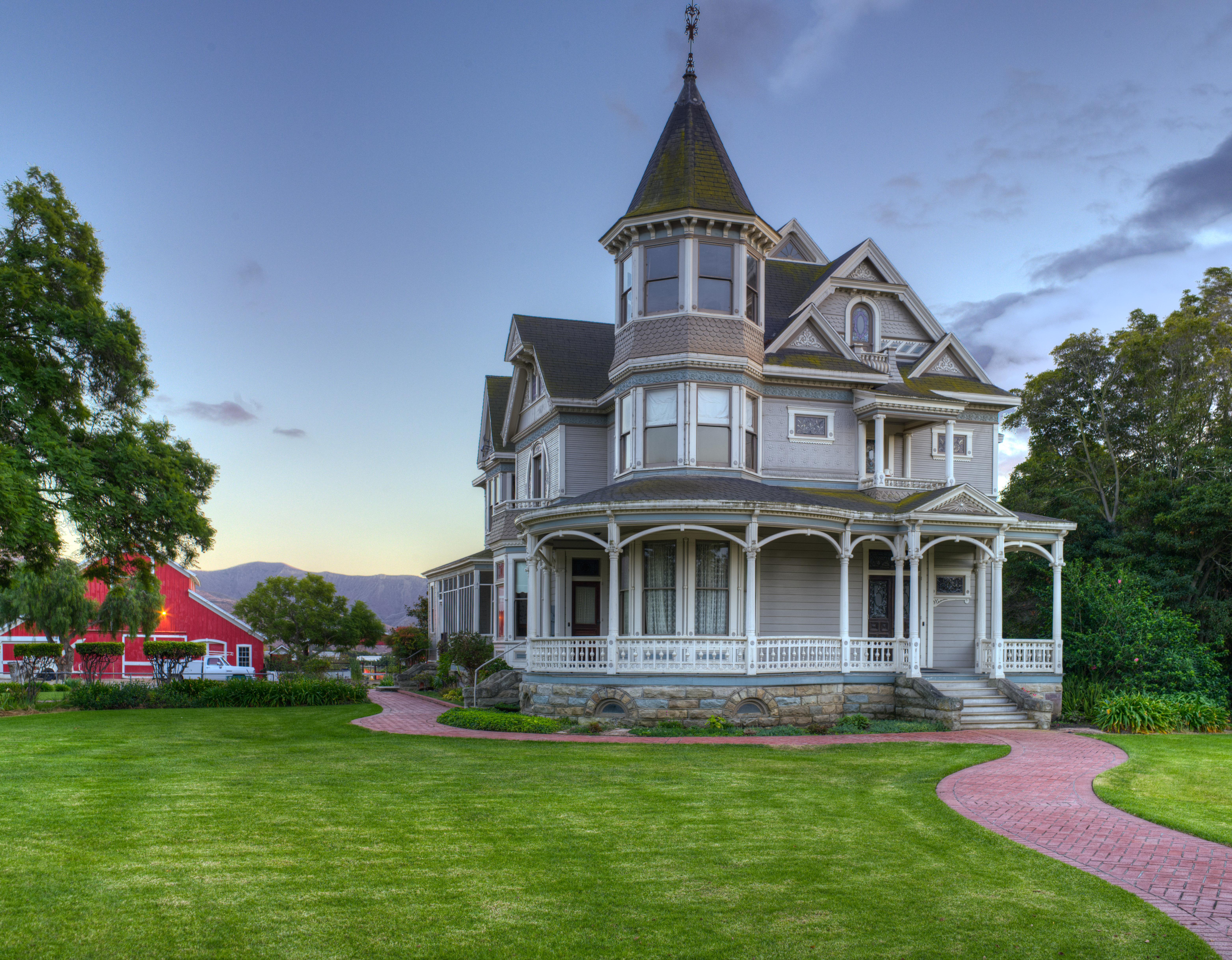 George Washington Faulkner House in Ventura California, for the National Register of Historic Places page.